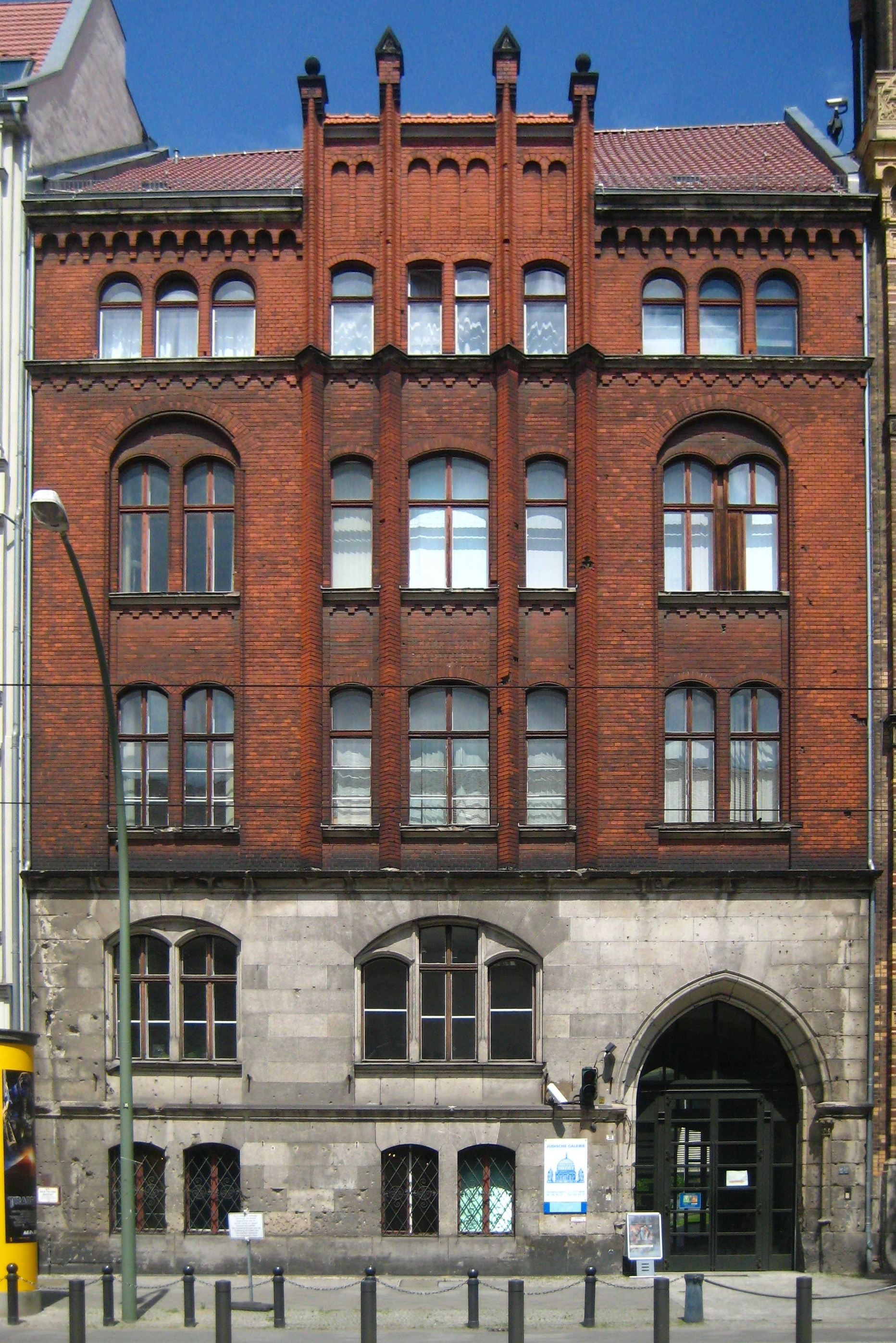 The former Jewish Museum at Oranienburger Straße No. 31 in Berlin-Mitte. The building stands to the left of the New Synagogue. It was donated by the married couple Moritz and Bertha Mannheimer and built around 1900 as home for ailing and elderly members of the Jewish community. After a renovation conducted by Alexander Beer, the building served as seat of the Jewish Museum from 1933 to 1938. The facade of the building is marked by the contrast between the sandstones of the ground floor and the bricks of the top floors. The portal was used as passage to the inner yard, where a side wing is located. The building is landmarked.